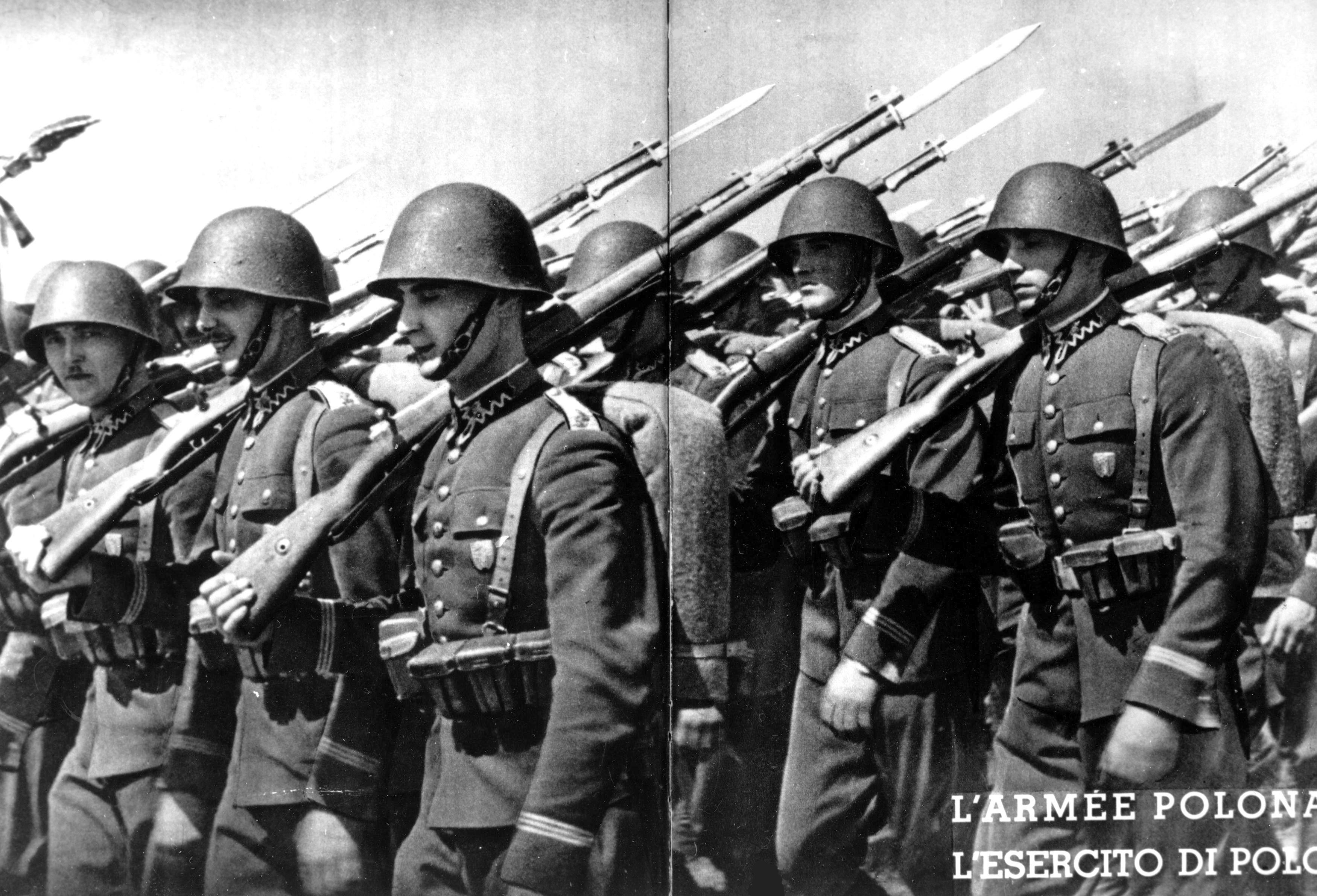 Polish Army during the Second World War (1939-1945).